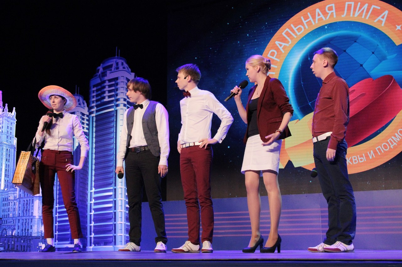 The PTZ team of Petrozavodsk on a performance in a semi-final of the Central league KVN of Moscow and Moscow area in 2015.